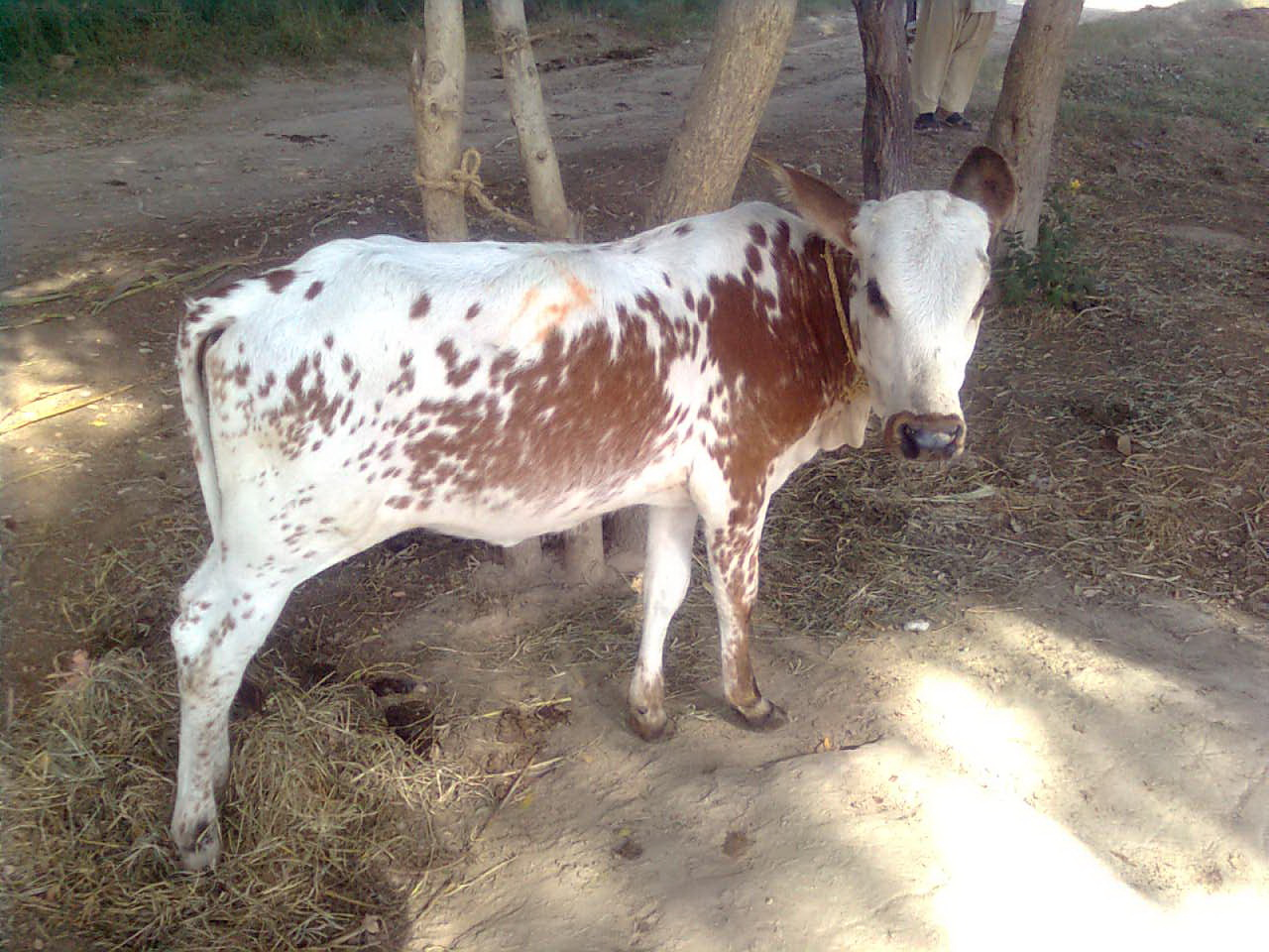 Cattle